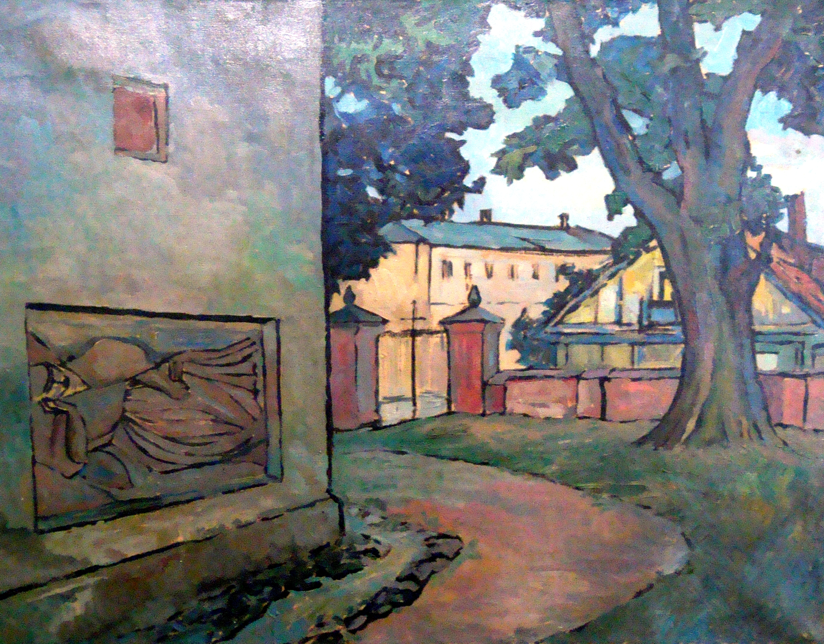 photo of a painting by Zdzislaw Pagowski